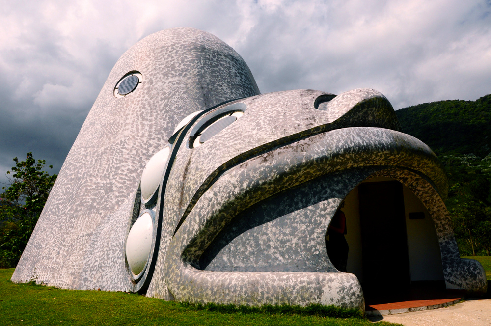 The Cemi Museum in Barrio Coabey, Jayuya, Puerto Rico